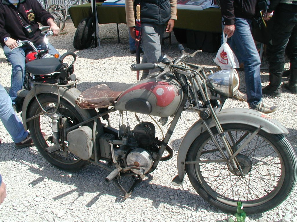 An old Automoto motorcycle Author Gerard Delafond